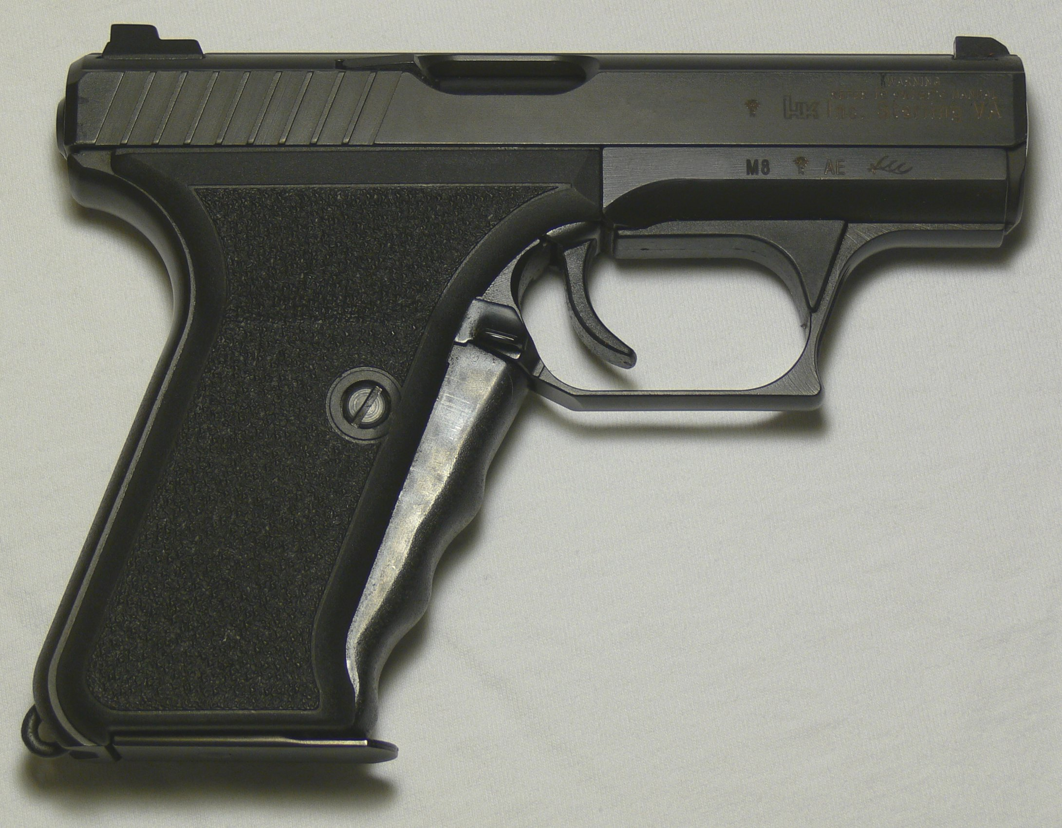 P7M8 pistol. Caliber 9 mm Parabellum.